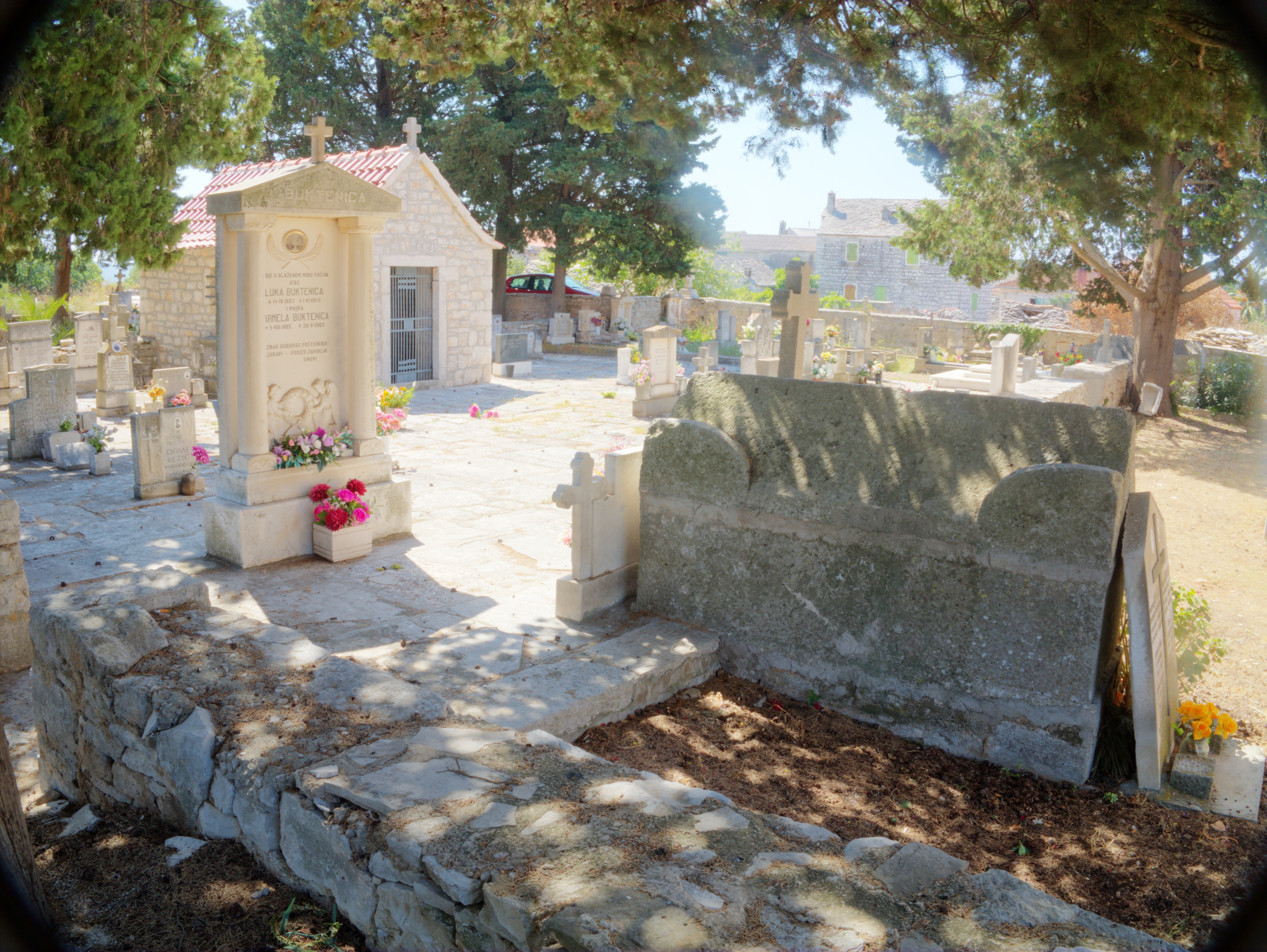 Cemetery in Grohote on the island Šolta / Croatia / Adriatic Sea. One of two early Christian sarcophagi in the cemetery of Grohote. He is half built into the cemetery wall and into the interwar period used again.